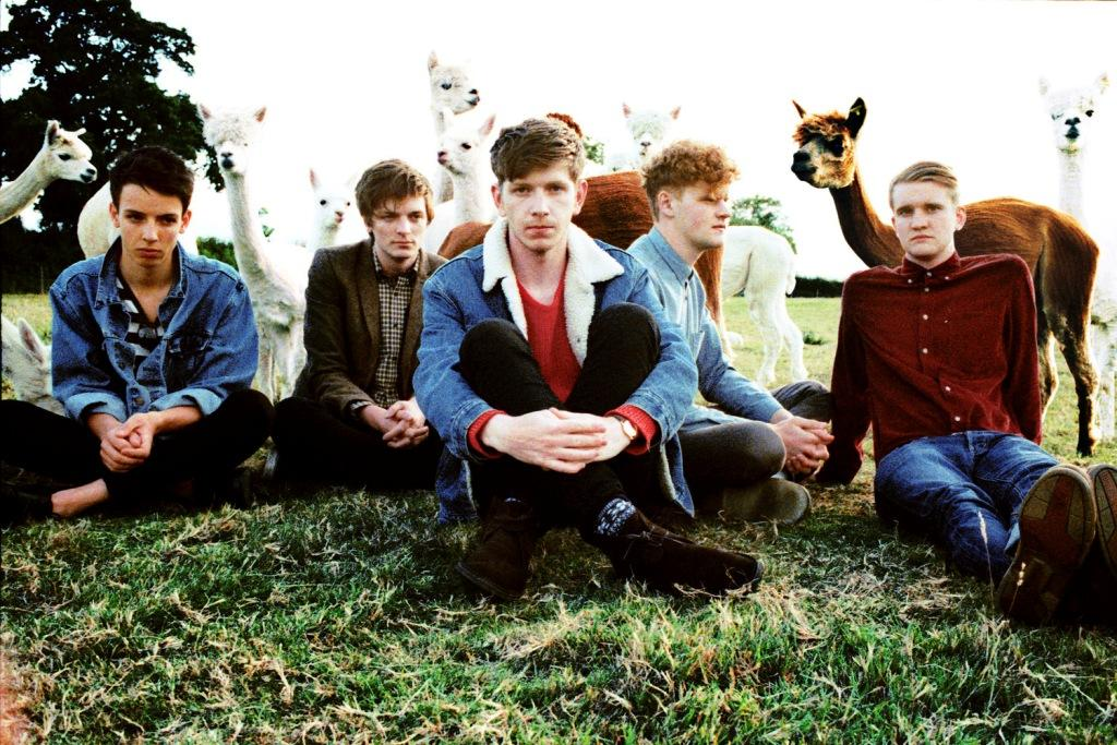 Image of the British band Dog Is Dead